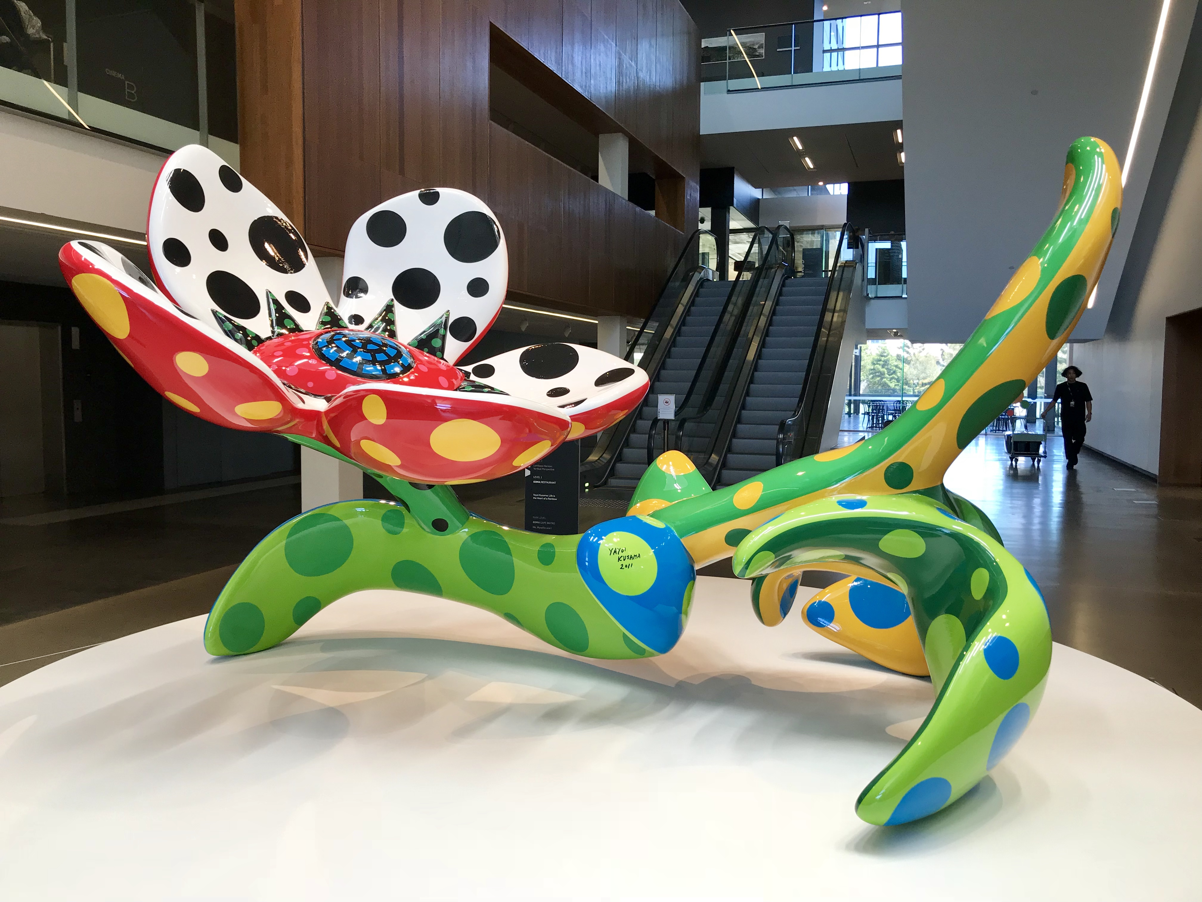 YAYOI KUSAMA exhibition LIFE IS THE HEART OF A RAINBOW at Gallery of Modern Art, Brisbane